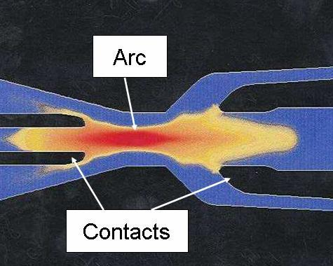 Arc of high-voltage circuit breaker